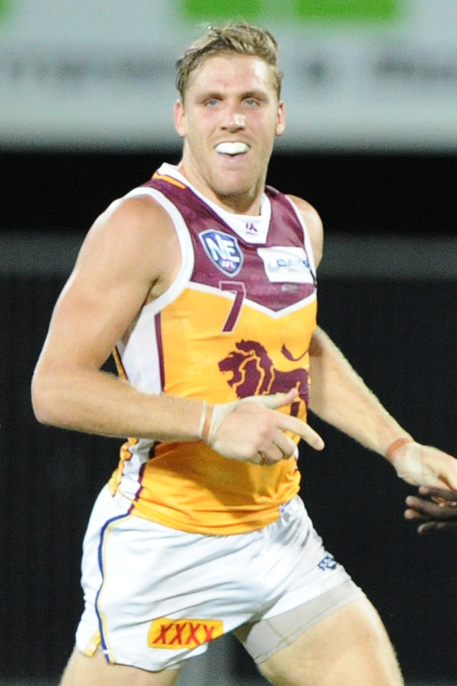 Tom Bell of the Brisbane Lions during the NEAFL round one match between NT Thunder and Brisbane Lions at TIO Stadium on 7 April 2018 in Darwin, Australia.